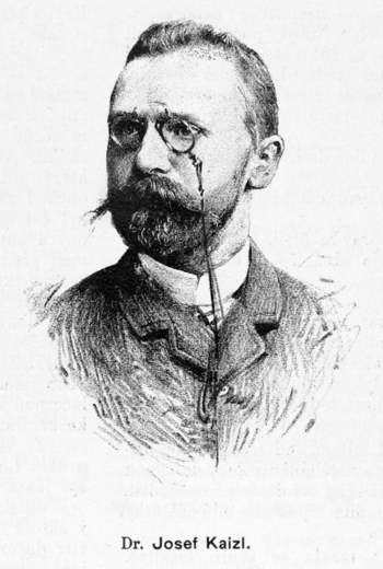 Portrait of Josef Kaizl (1854 - 1901), Czech politician (deputy in Austrian "Reichsrat").